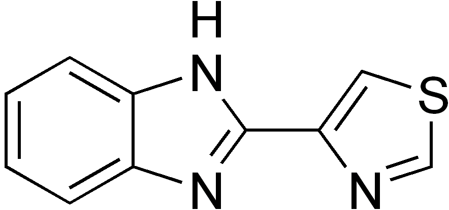 Chemical structure of thiabendazole